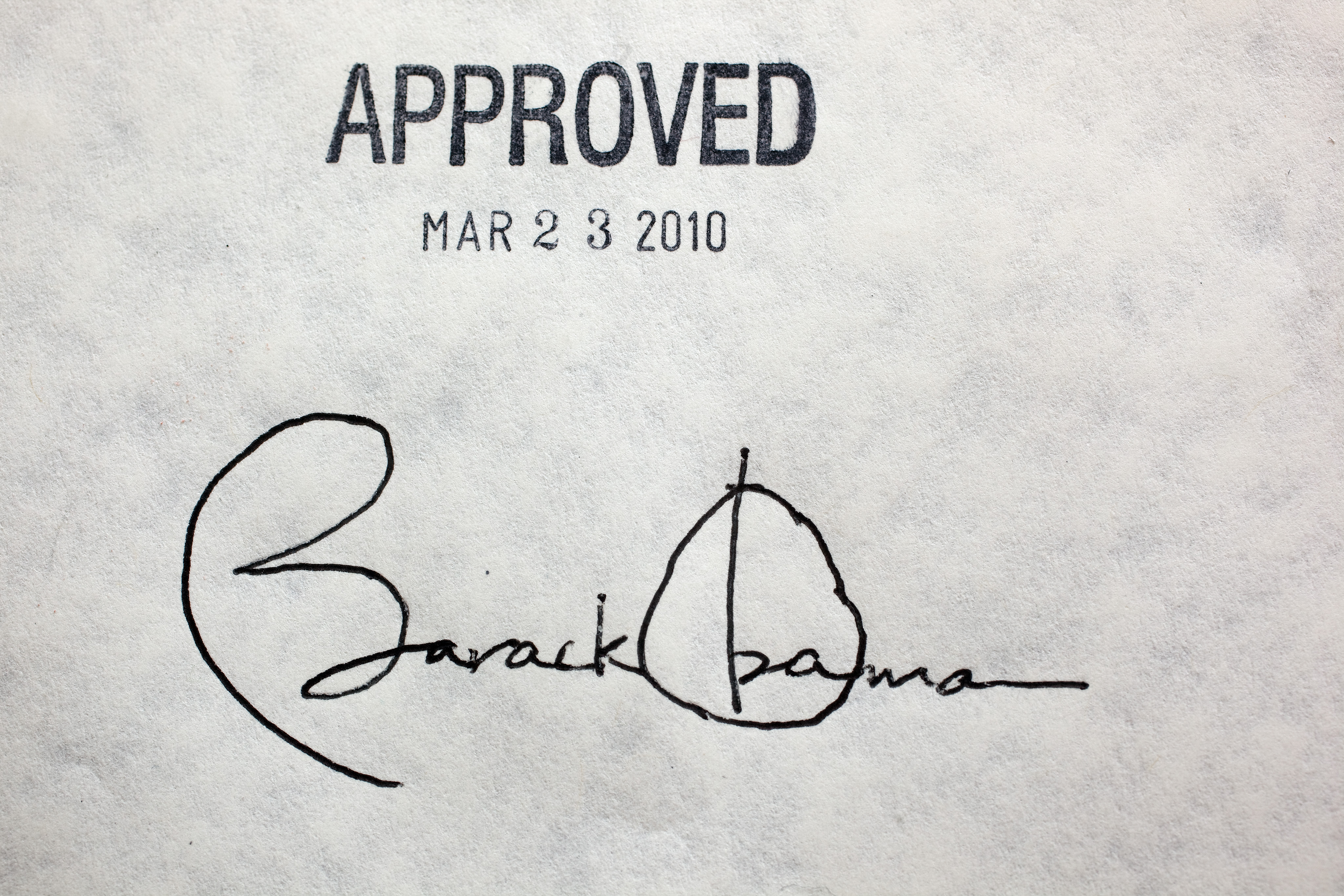 President Barack Obama's signature on the health insurance reform bill at the White House, March 23, 2010. The President signed the bill with 22 different pens.